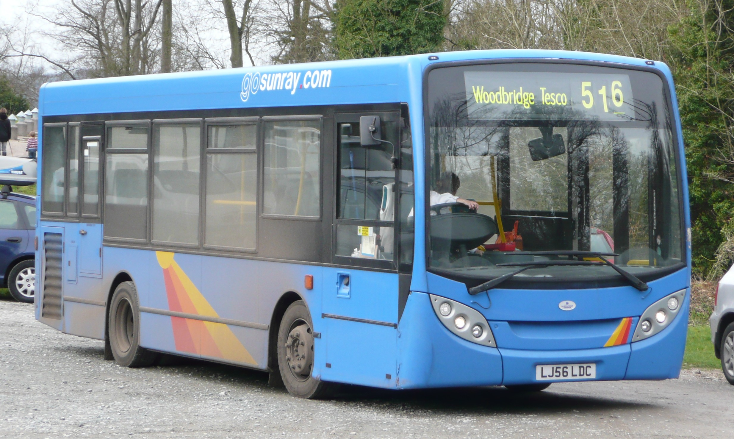 Sunray Travel LJ56 LDC, an Alexander Dennis Enviro200 Dart 8.9m at the Box Hill National Trust visitor centre, on route 516. This and sister bus GX56 AEB were the first Enviro200 Darts to operate in the London area.